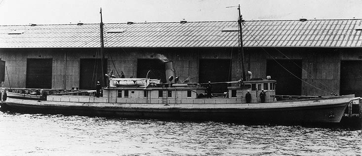 USS Bayocean (ID # 2640), 1918-1921 Name also spelled Bay Ocean/